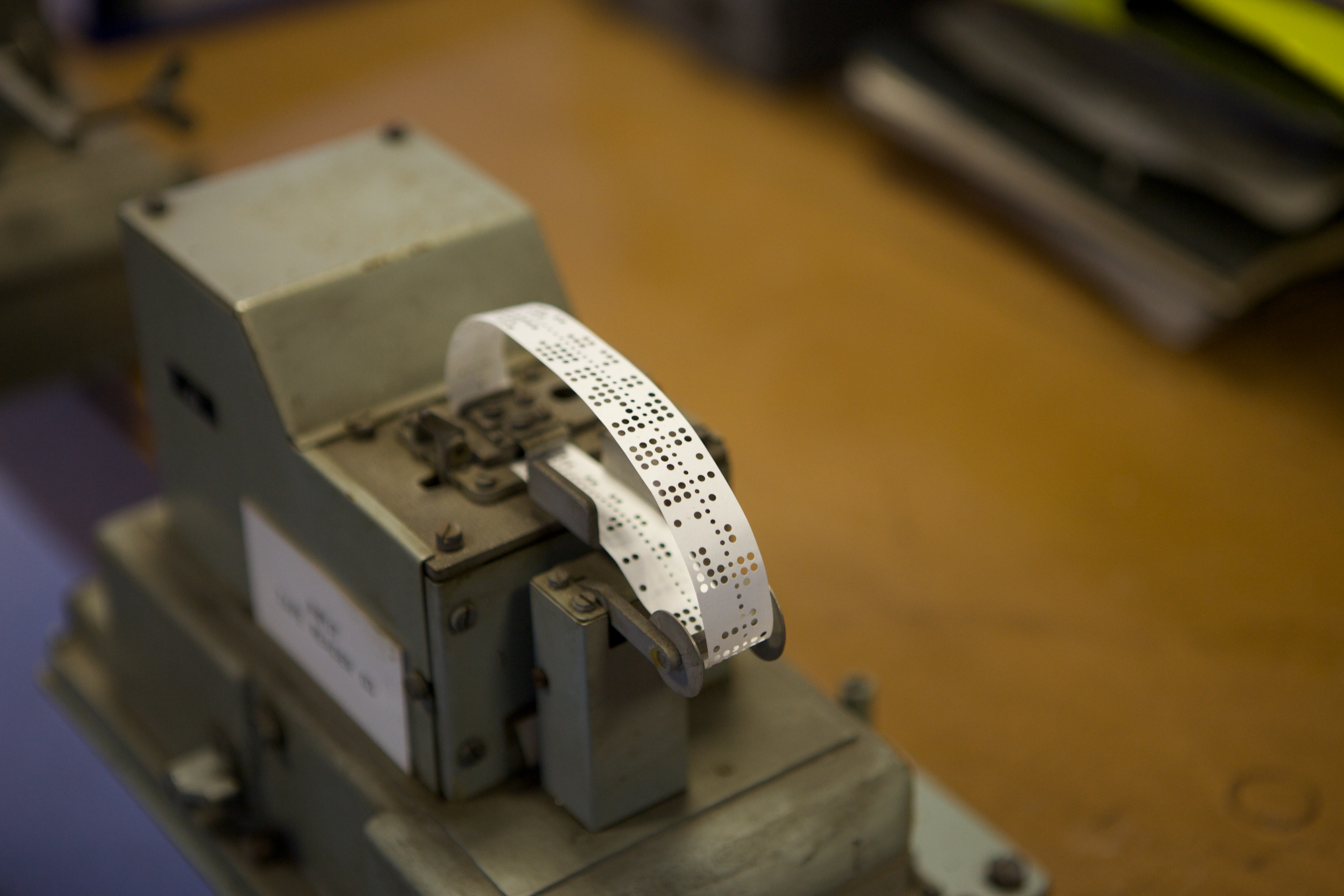 Photographs of the Harwell-Dekatron Computer, also known as WITCH. Taken at the National Museum of Computing at Bletchley Park, UK.